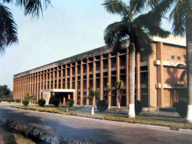 National Institute of Technology, Kurukshetra near 1995. The senate Building is not to be seen here.